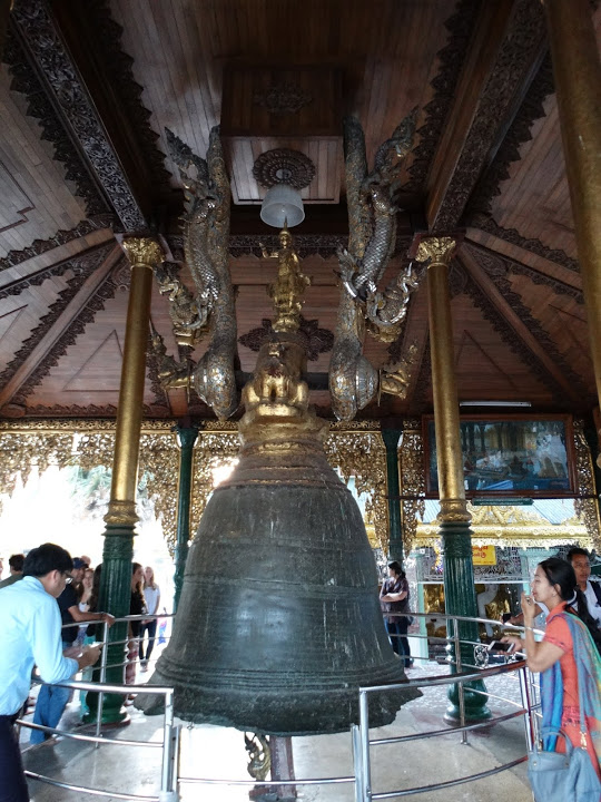 The bell in Swe Dagon pagoda